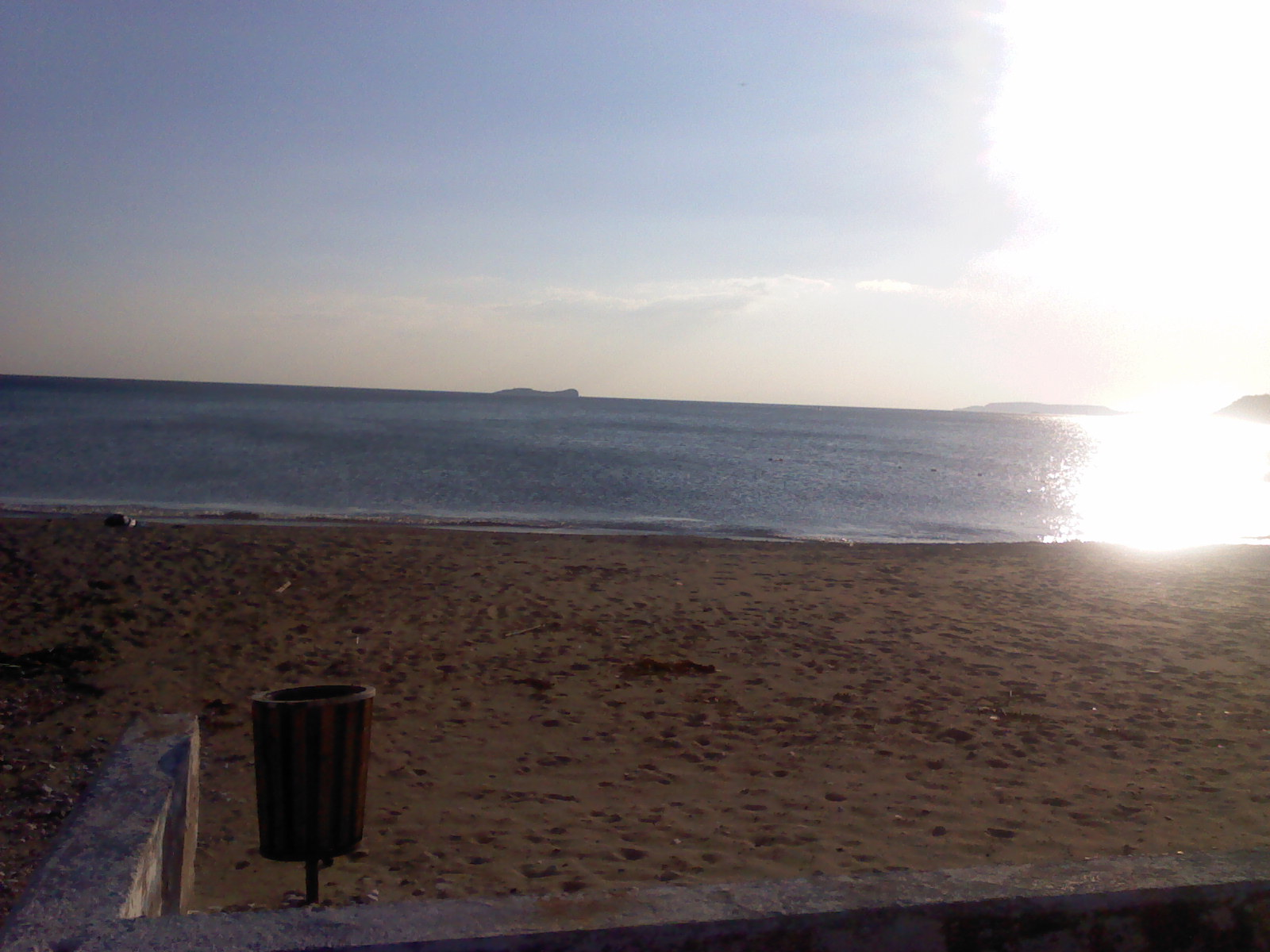 Seaside Agia Marina Koropi